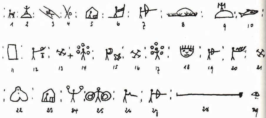 Yugtun script: Alaska script: The Lord's Prayer in ideographs